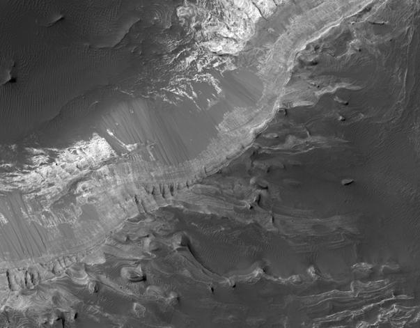 Capri Mensa wall, as seen by hirise. Location is 12.9 degrees south latitude and 310.5 degrees east longitude. Image was taken by the Mars Reconnaissance Orbiter's HiRISE. The HiRISE camera was built by Ball Aerospace and Technology orporation and is operated by the University of Arizona.